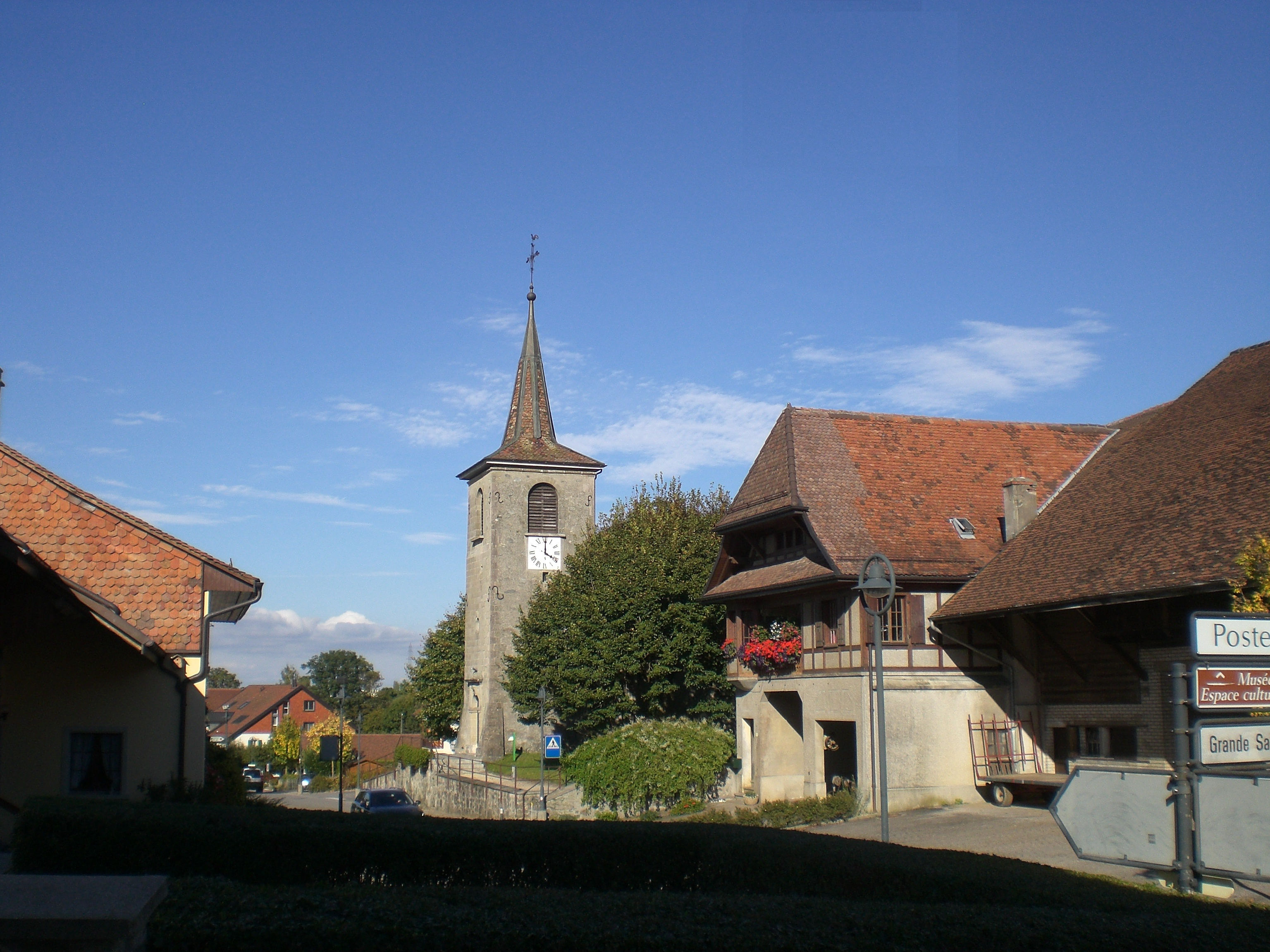 Mixed church of St-Germain of Assens, canton of Vaud, Switzerland